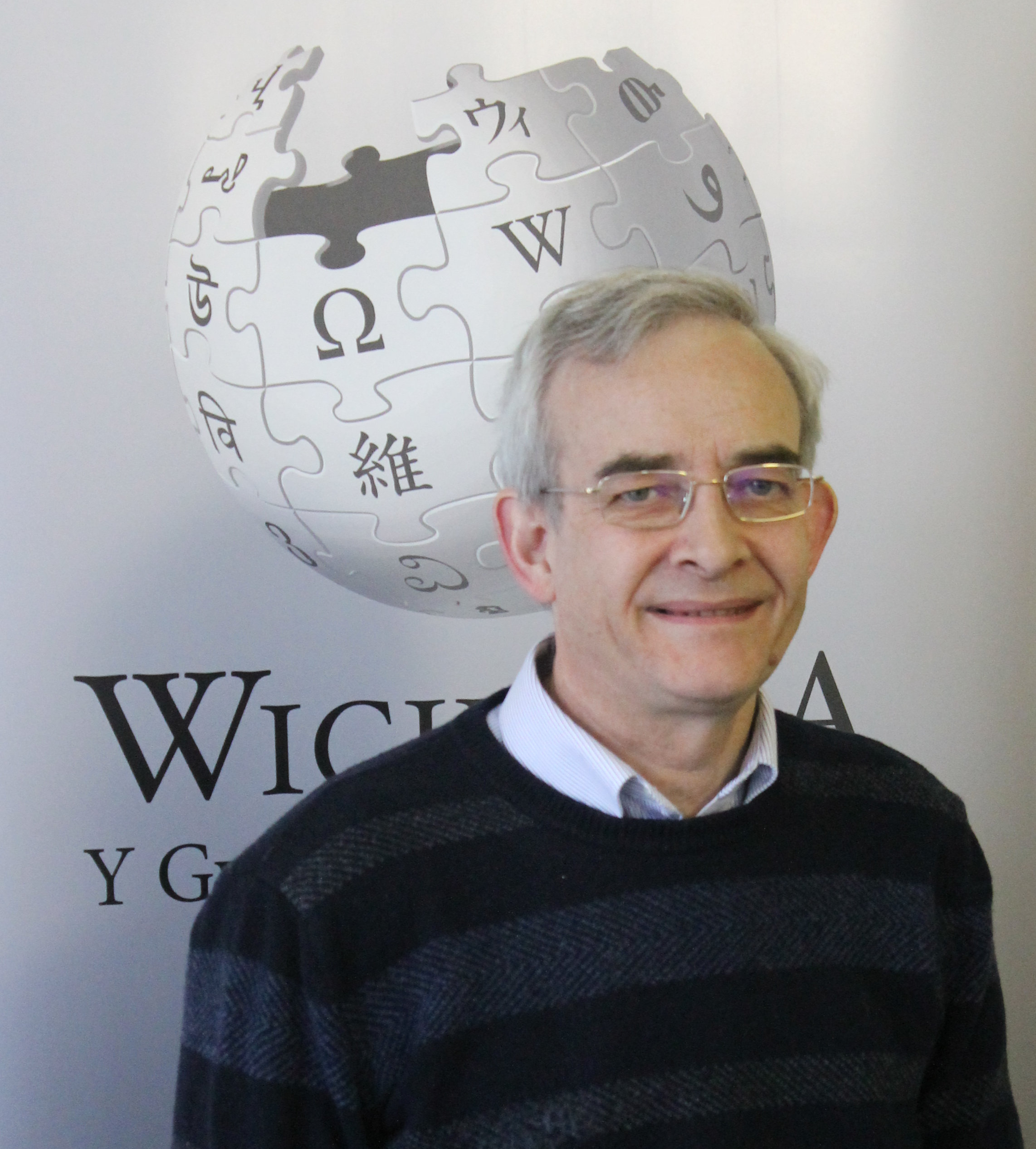 Wici Natur Conference at Plas Tan y Bwlch, Maentwrog, North Wales. May 2017. Andrew Hawke.